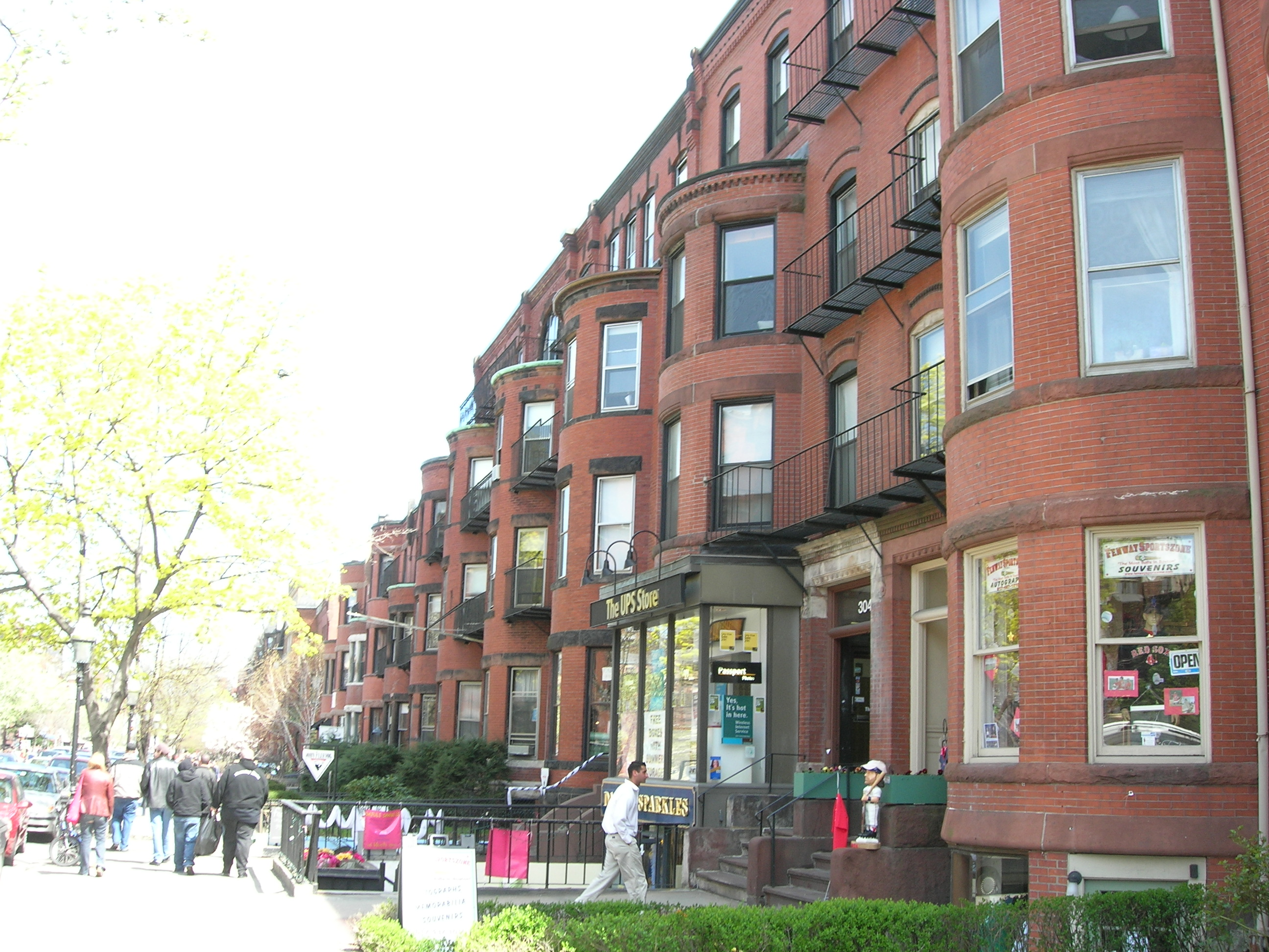 Newbury Street shopping district